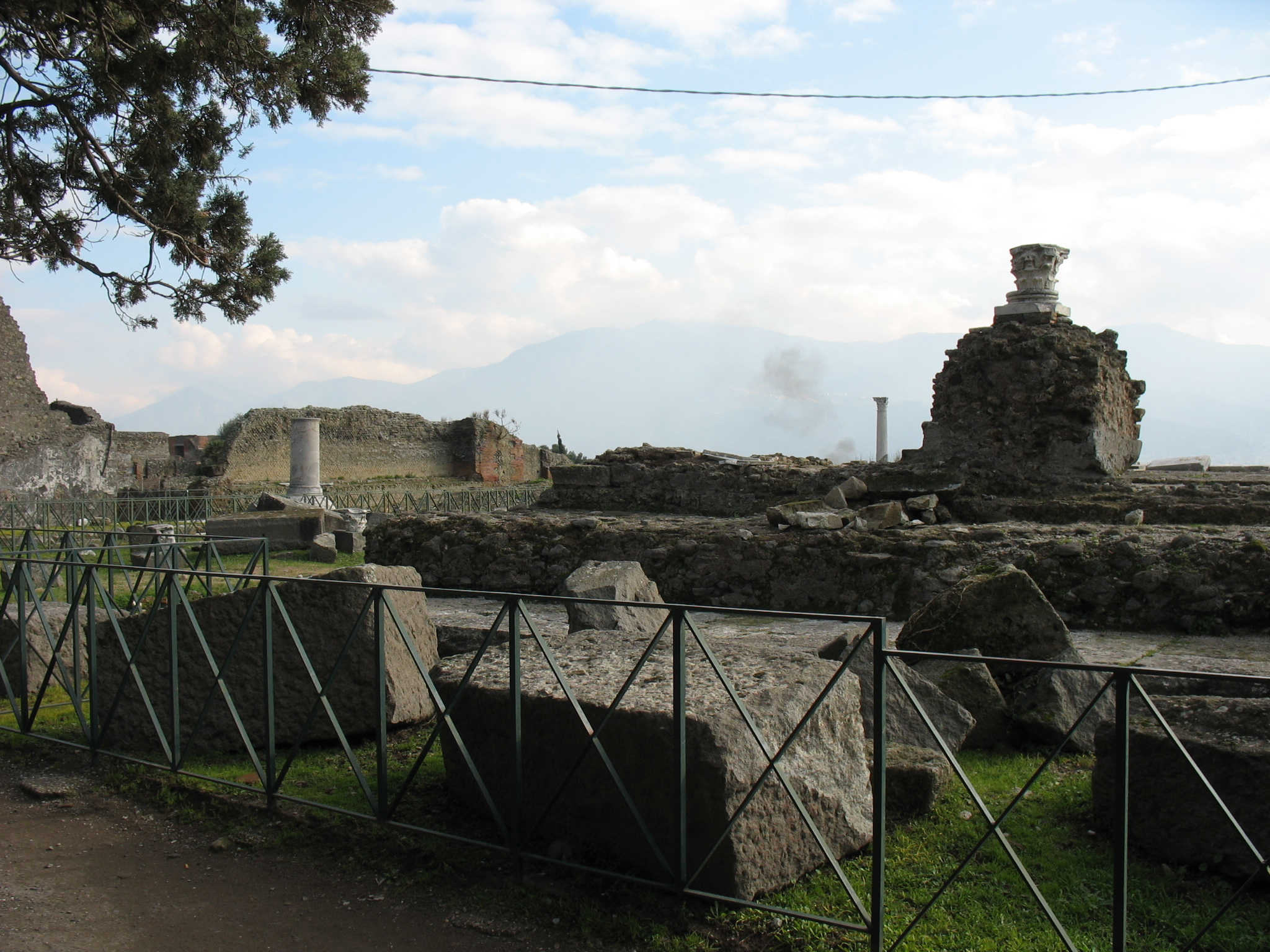 A photograph of the temple of Venus at Pompeii, taken by myself on January 16, 2006.